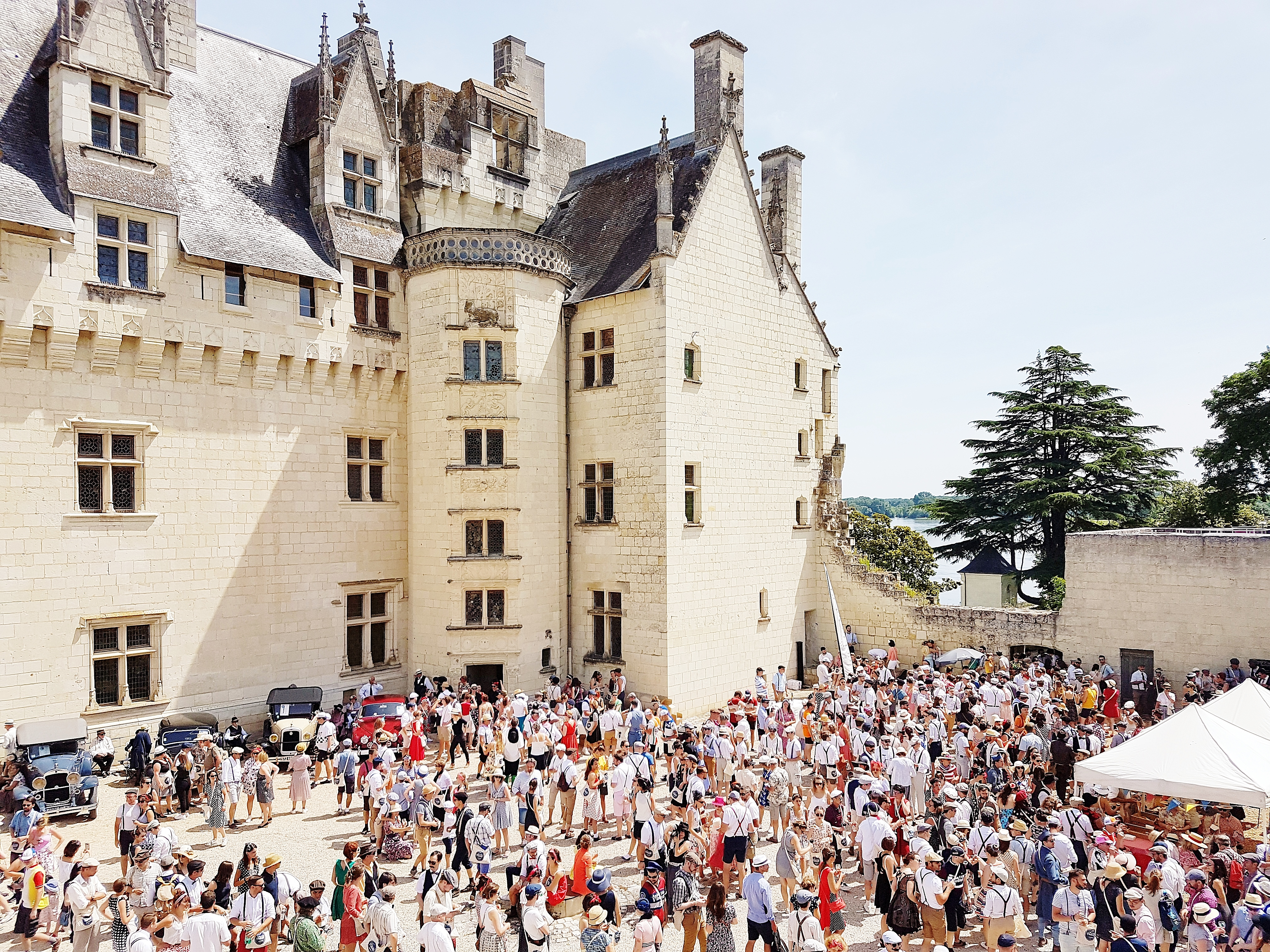 Anjou Vélo Vintage Festival: Chateau de Montsoreau-Museum of Contemporary Art.